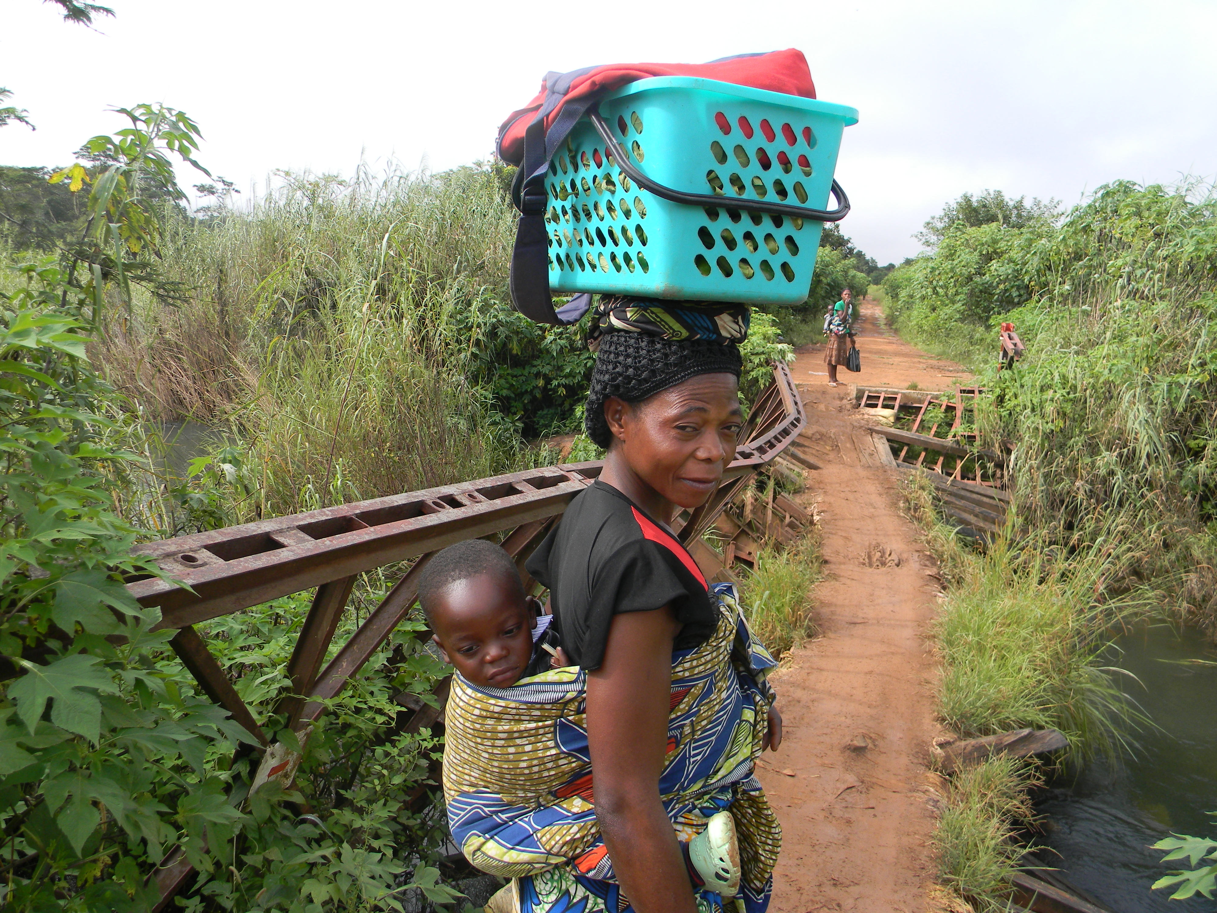 child and objects in perfect balance....in Lumbumbashi R.D.Congo. This is an image with the theme "Africa on the Move or Transport" from: Democratic Republic of the Congo